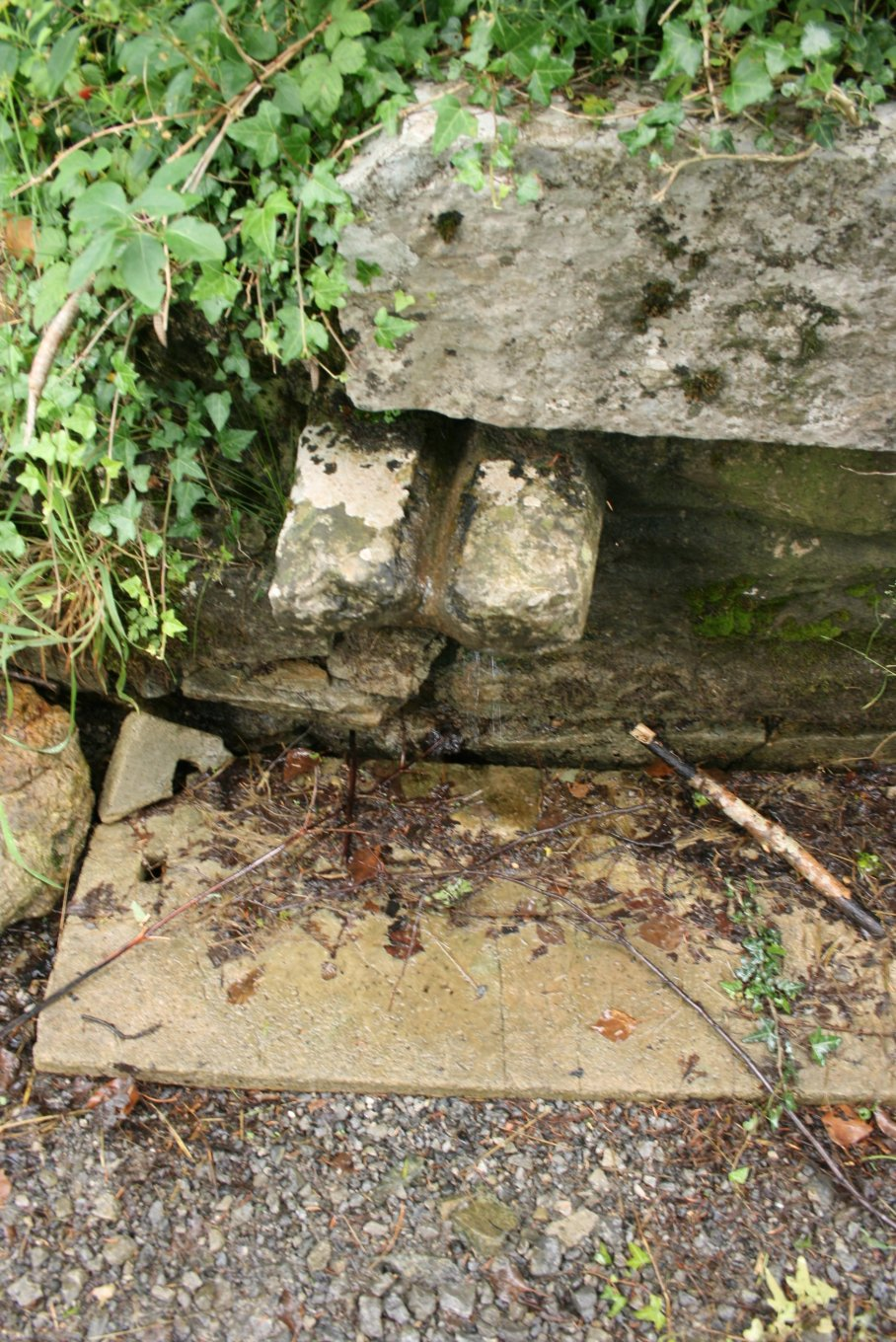 The last vestiges of the curative source near the chapel of Saint Christau at Accous in Béarn, France.